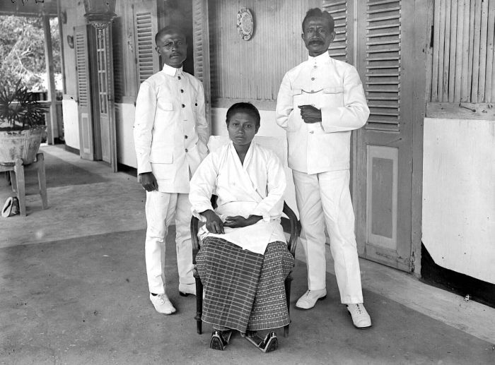 The Raja of Makariki, Weinand Wattimena, with his wife and brother, on the verandah of his house in Makariki, Seram